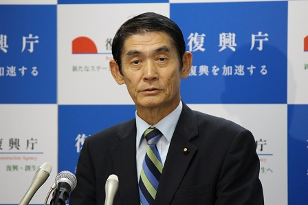 Masahiro Imamura, Minister for Reconstruction, attended the press conference at the Central Government Building No.4 in Chiyoda Ward, Tōkyō Metropolis on August 3, 2016.